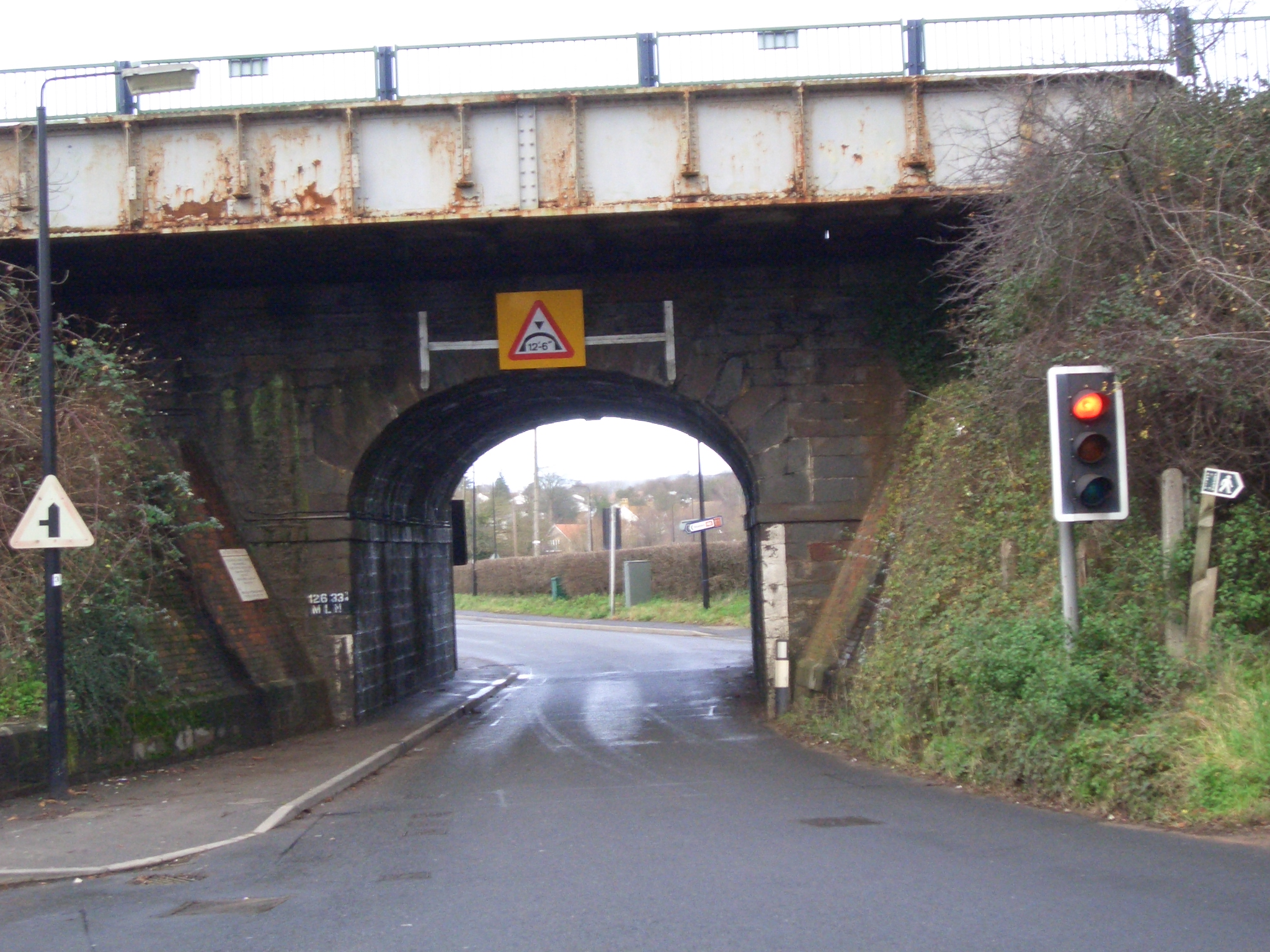 Nailsea and Backwell railway station sits atop a bridge, which spans the main road between Nailsea and Backwell.